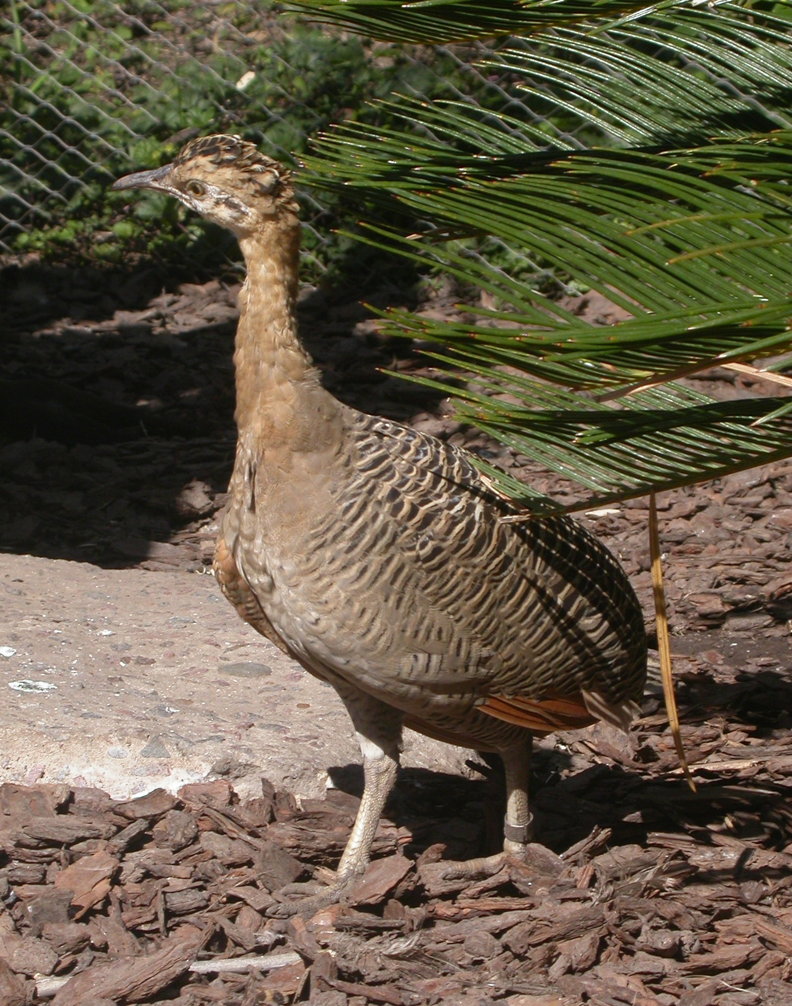 Rhynchotus rufescens (captive, unknown subspecies) at Bioparque Temaikèn, Escobar (Buenos Aires province, Argentina).